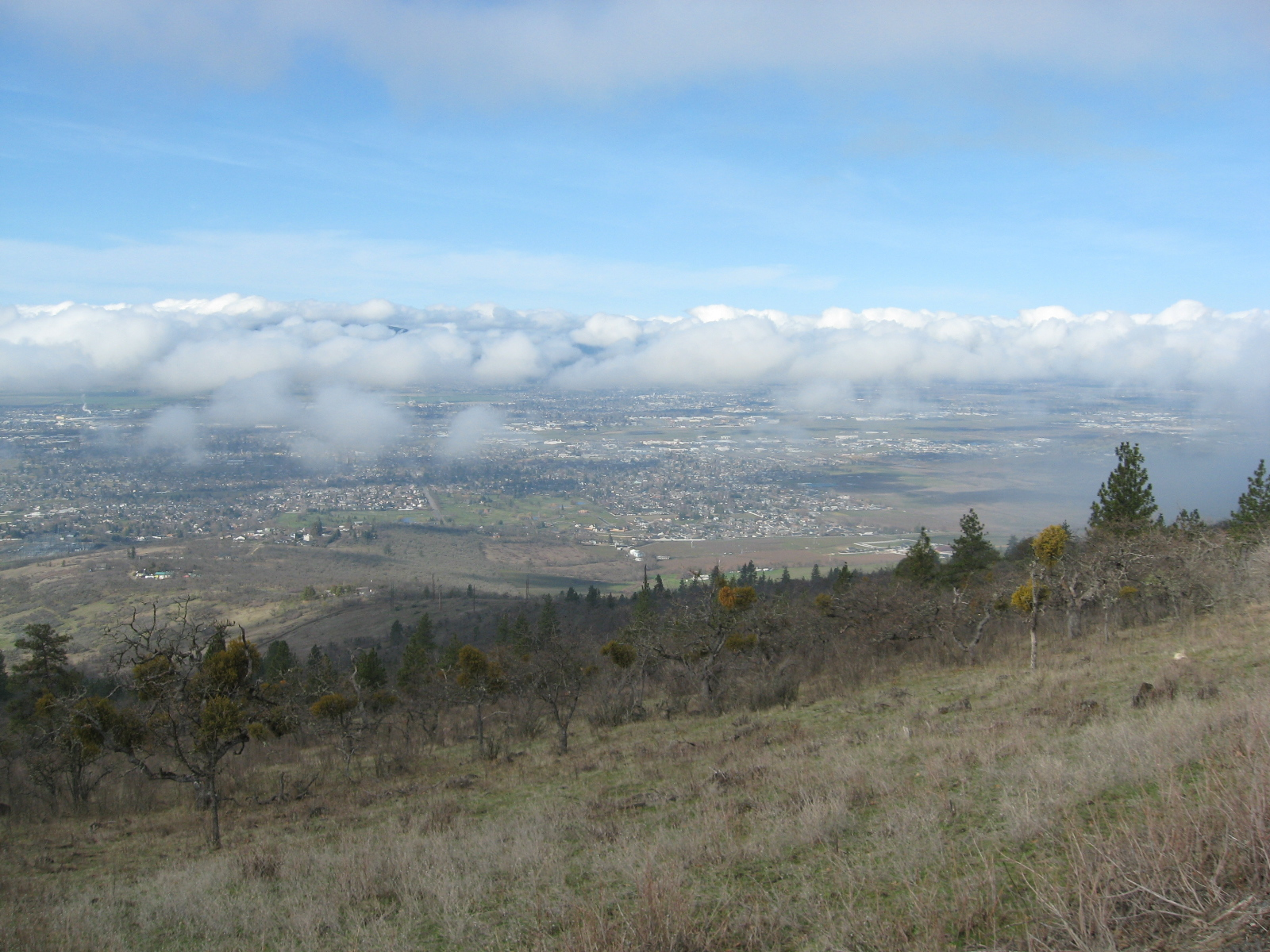 Medford, Oregon, from Roxy Ann Peak, facing west